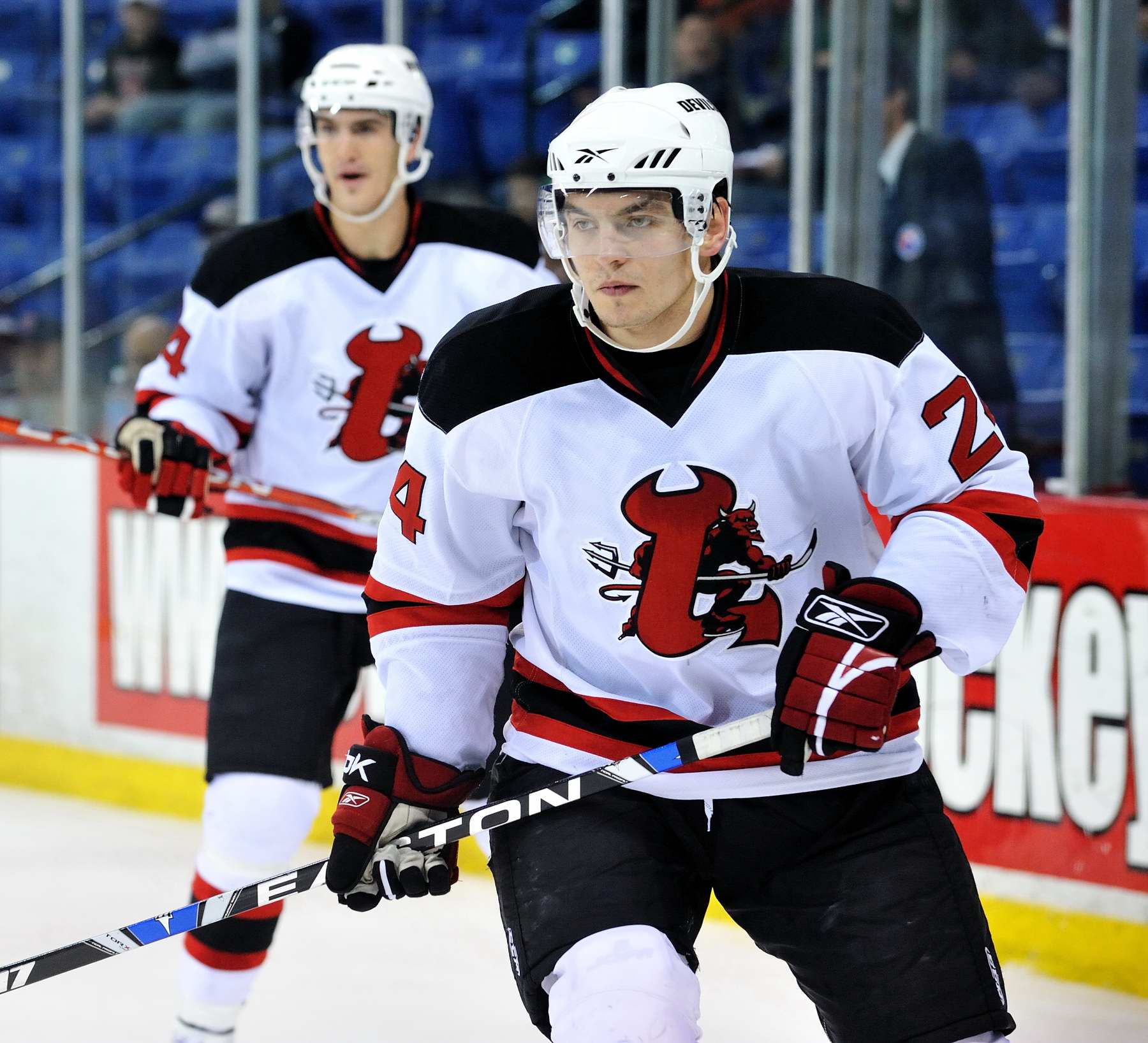 Alexander Vasyunov (Sharks vs Devils 11/13/09)